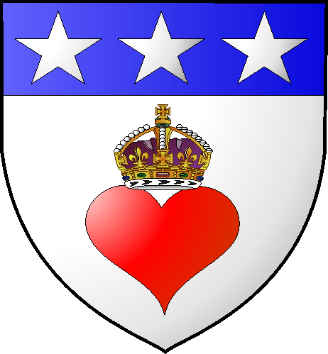 Douglas of old CoA Blazon: Argent a heart Gules imperially crowned Or on a chief Azure three mullets of the first.